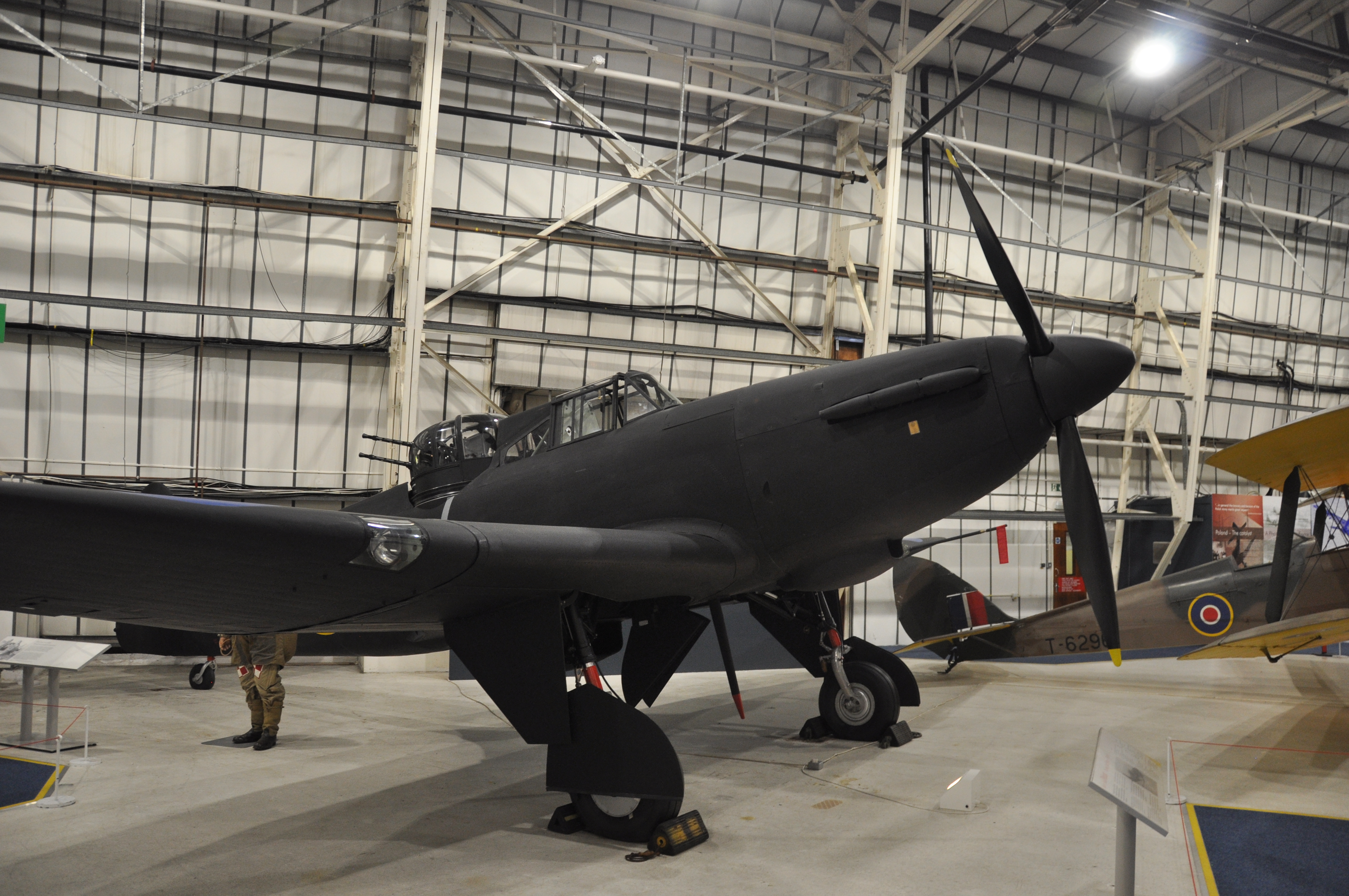 Pictures from WW2 hall at RAF Museum, Hendon Boulton Paul Defiant N1671 at RAF Museum Hendon, view from front starboard